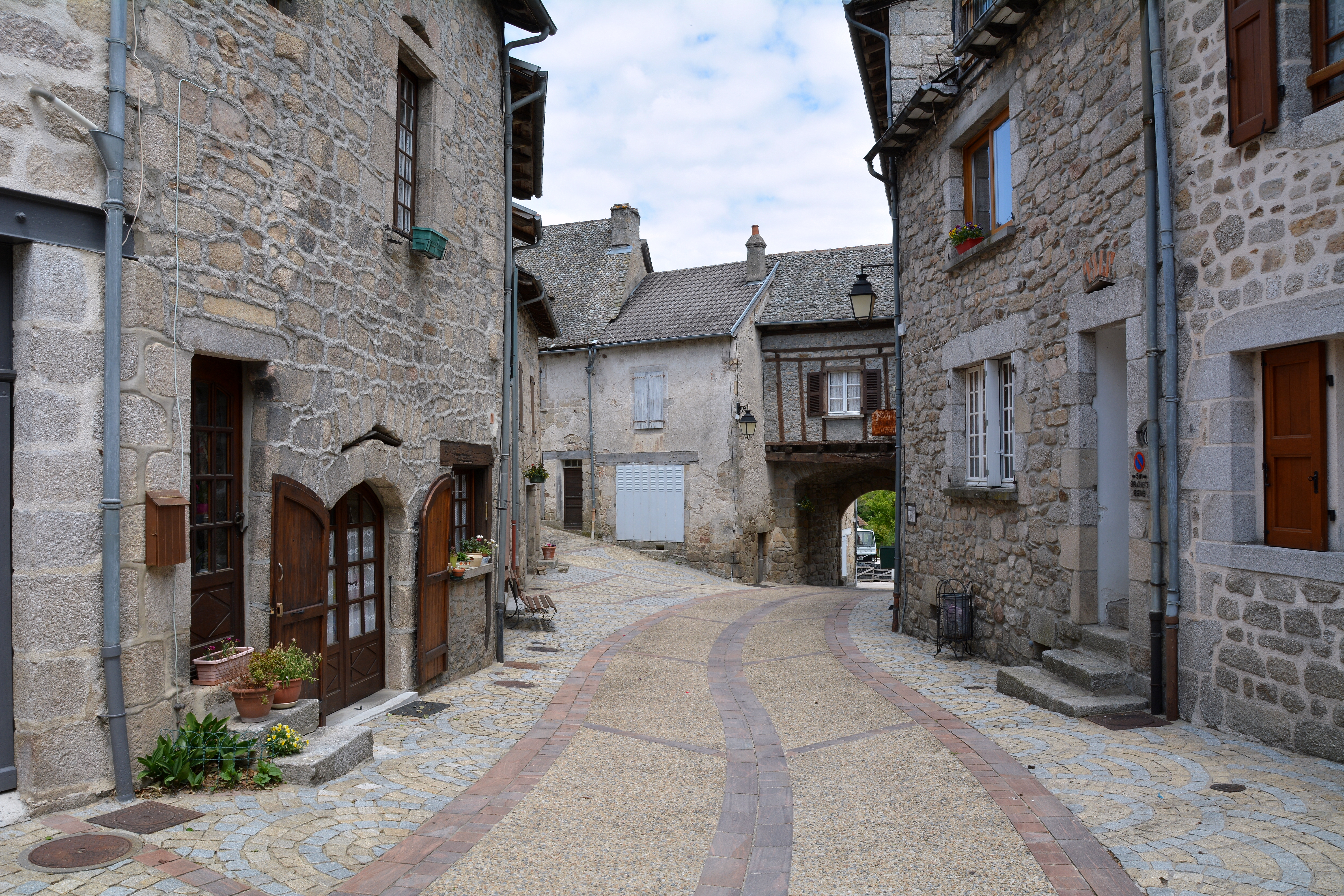 Main street (rue Longue) of the village of Marcolès, Cantal, Auvergne, France